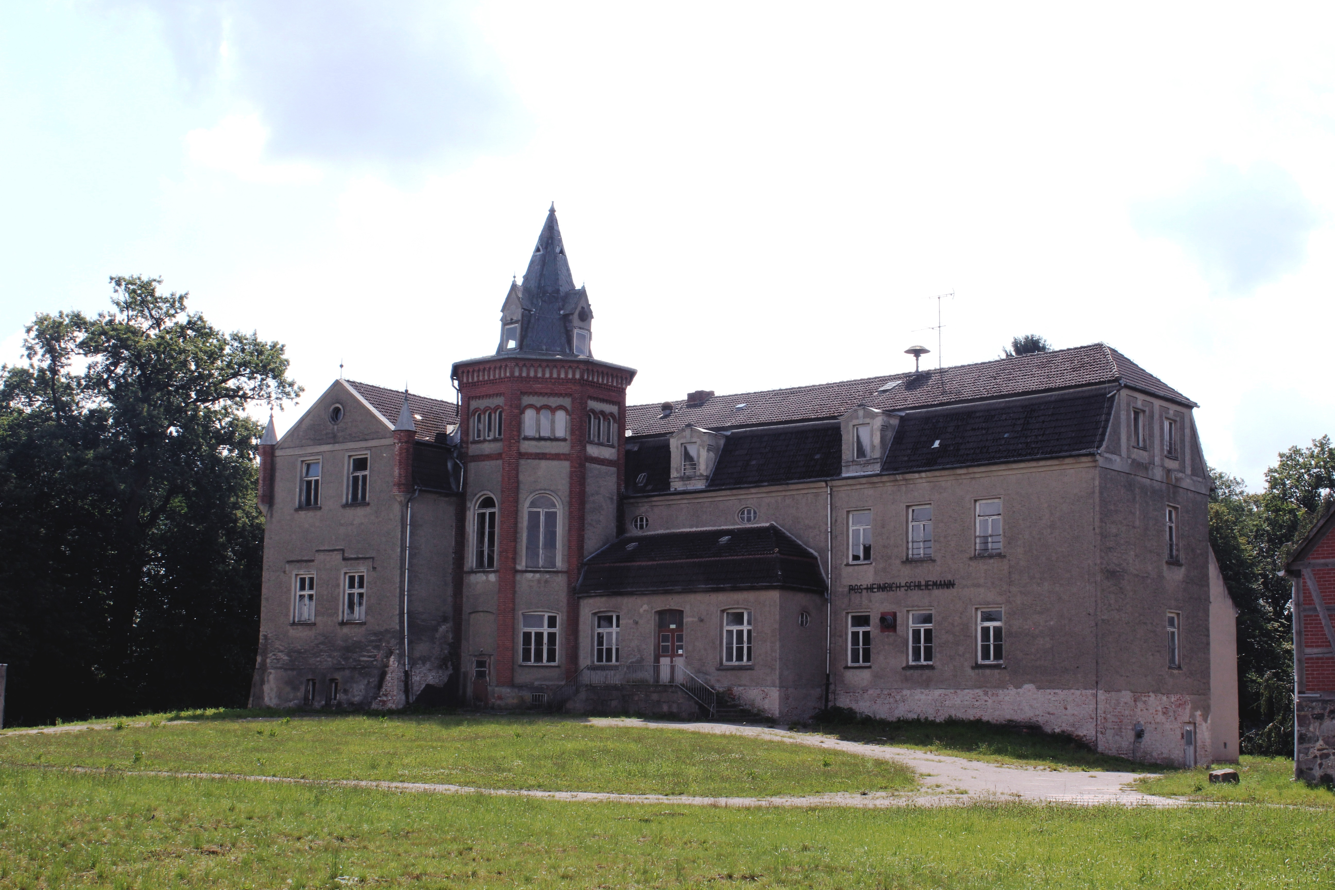 The manor house of Ankershagen